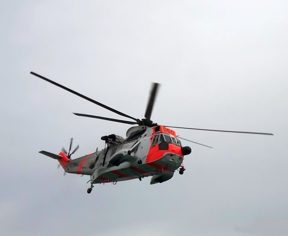 A Royal Norwegian Air Force Westland Sea King Mk.43 helicopter in the summer of 2004.